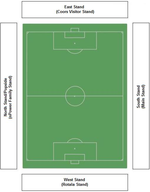 Outline Plan of Burton Albion FC's Pirelli Stadium